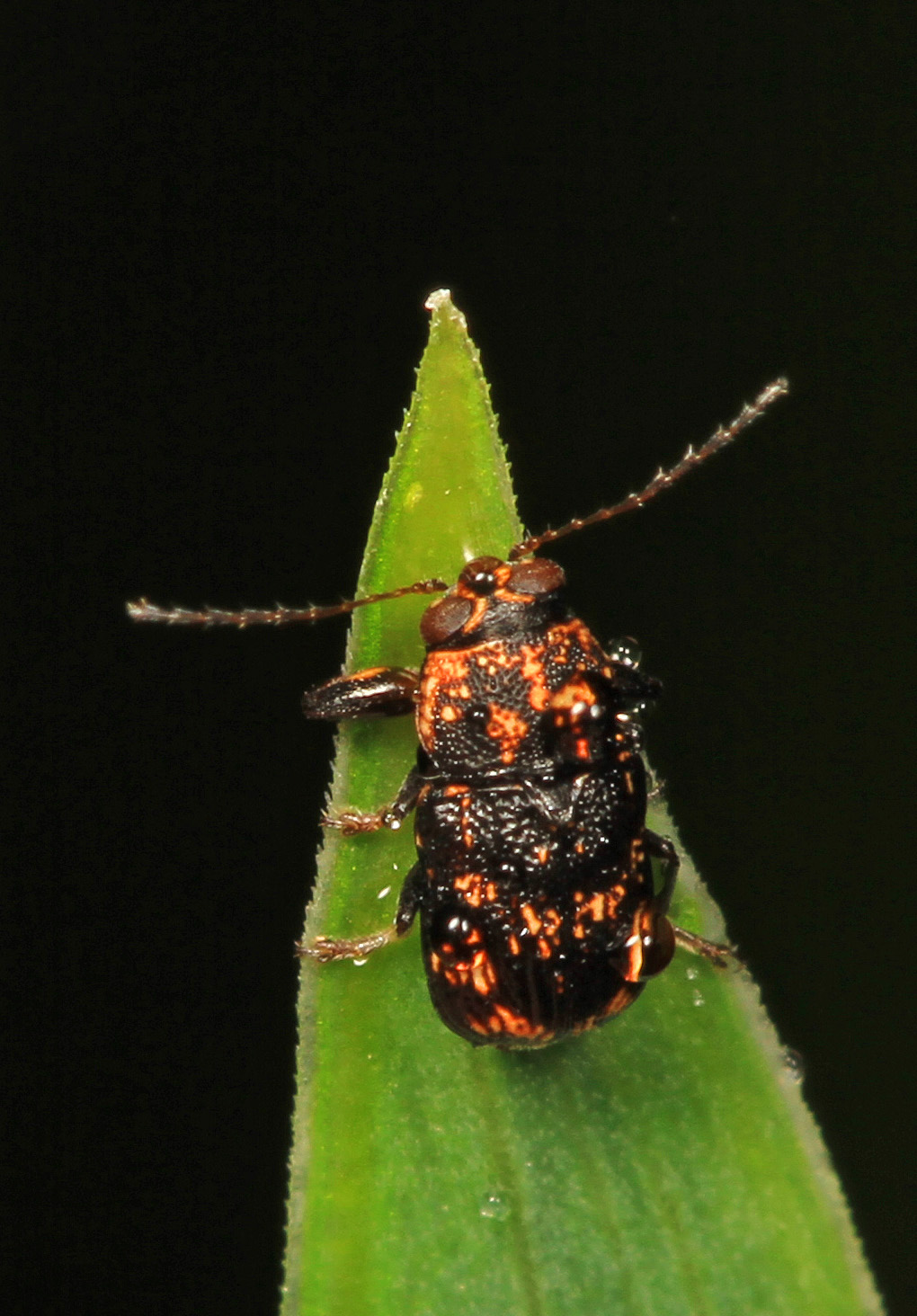 Case-bearing Leaf Beetle - Pachybrachis impurus, Felsenthal National Wildlife Refuge, Crossett, Arkansas.